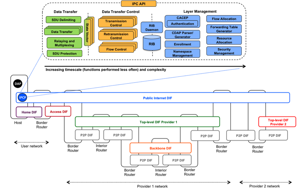 Example of RINA networks and IPC Process components